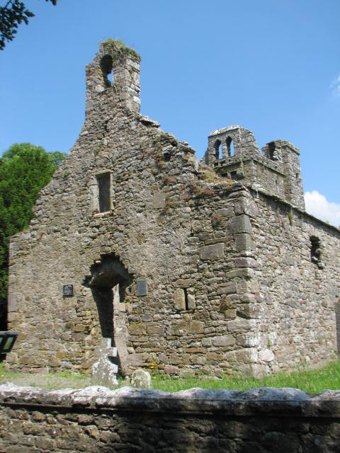 Kilfane Church Kilfane Church is the home of the "long man of Kilfane", because of the large effigy of a knight inside.